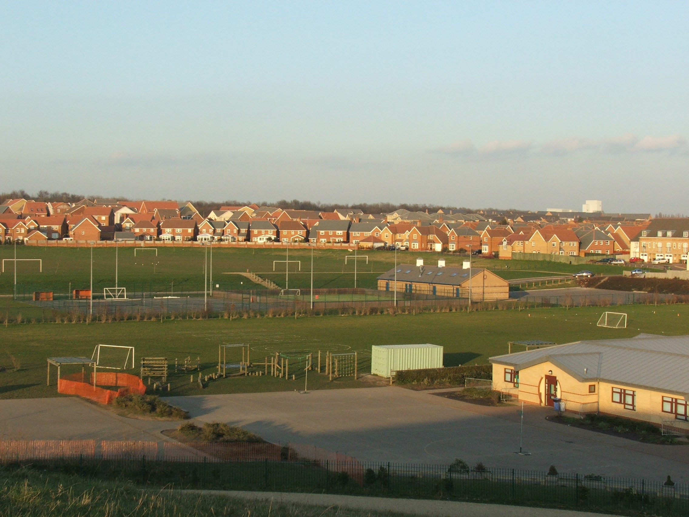 View on Hampton Hargate and part of its primary school - Peterborough, England, UK.